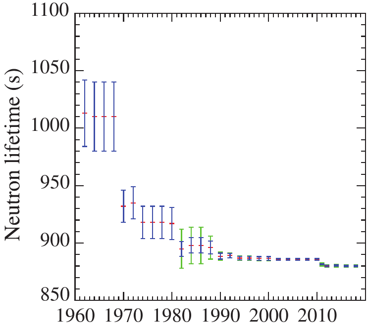 A historical perspective of values of a few particle properties tabulated in this Review as a function of date of publication of the Review. A full error bar indicates the quoted error; a thick-lined portion indicates the same but without the “scale factor.”